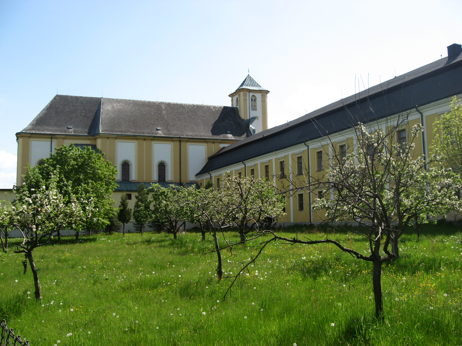 Former Piarist college (built 1724-1733) with church of the Visitation (1755-1767) in Bílá Voda, Jeseník District, Czech Republic. A view of NE side from the north.